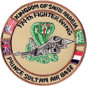 174th Fighter Wing Operation Southern Watch - emblem.